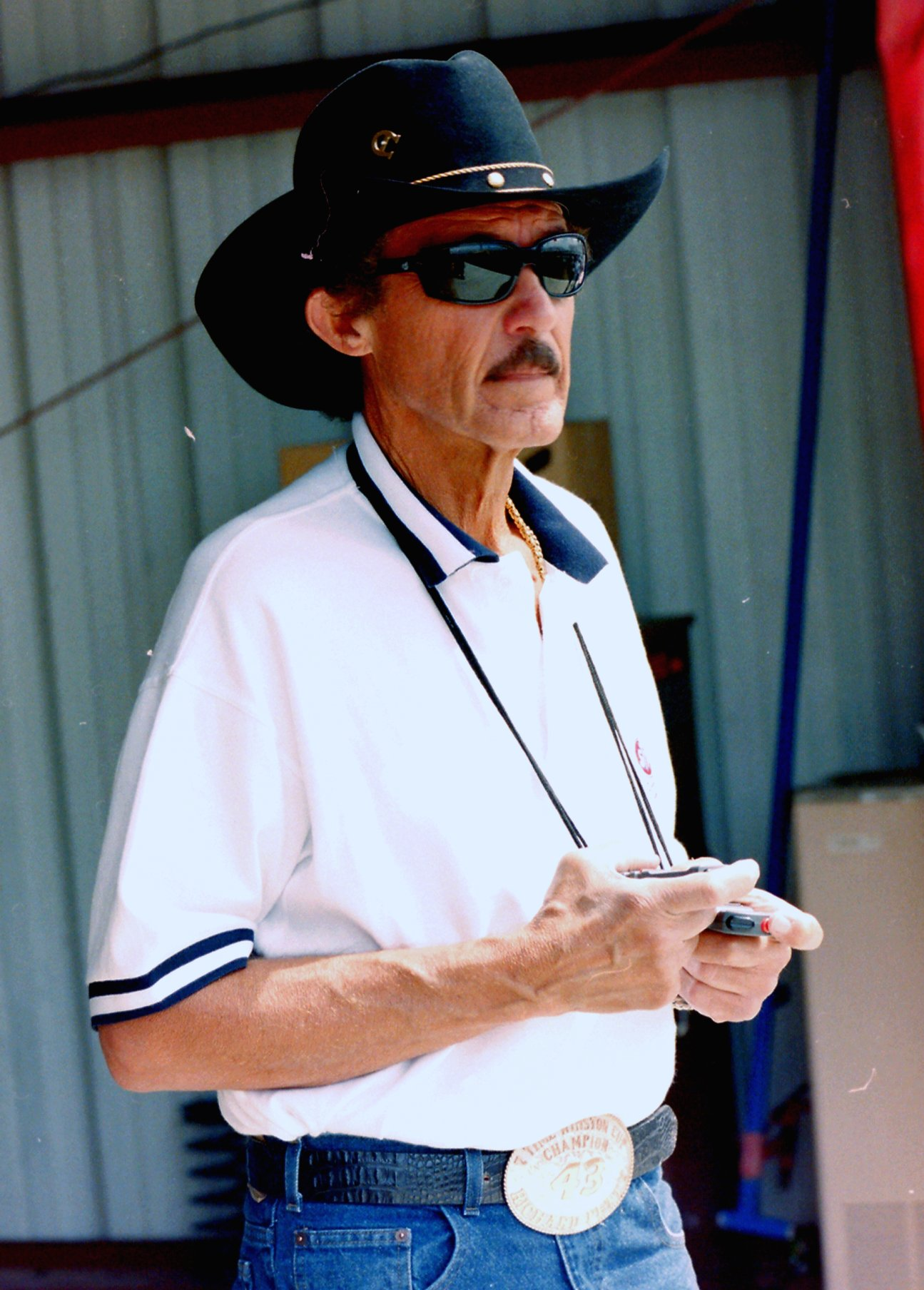 Richard Petty keeping track of times set by the NASCAR drivers